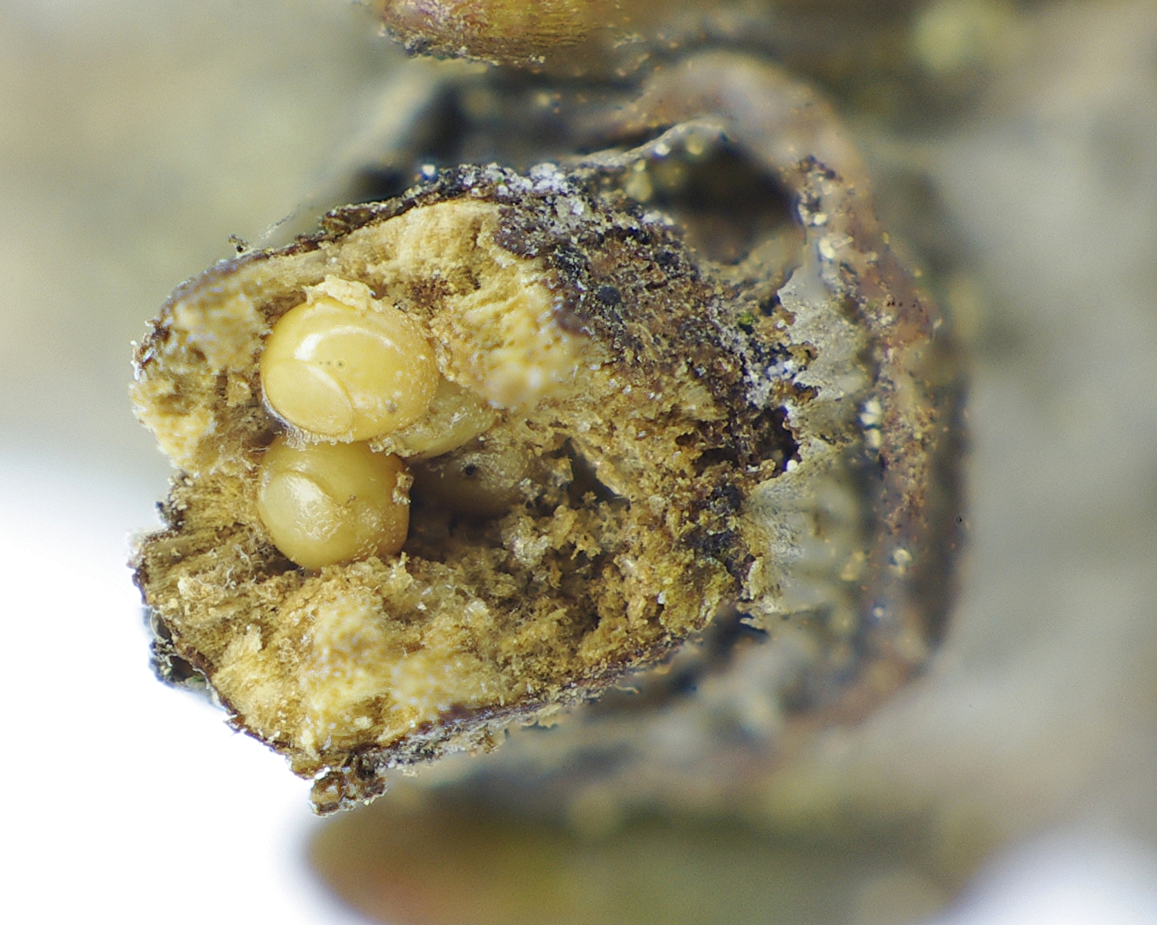 Pyrrhalta viburni from Southern Germany, eggs in Viburnum